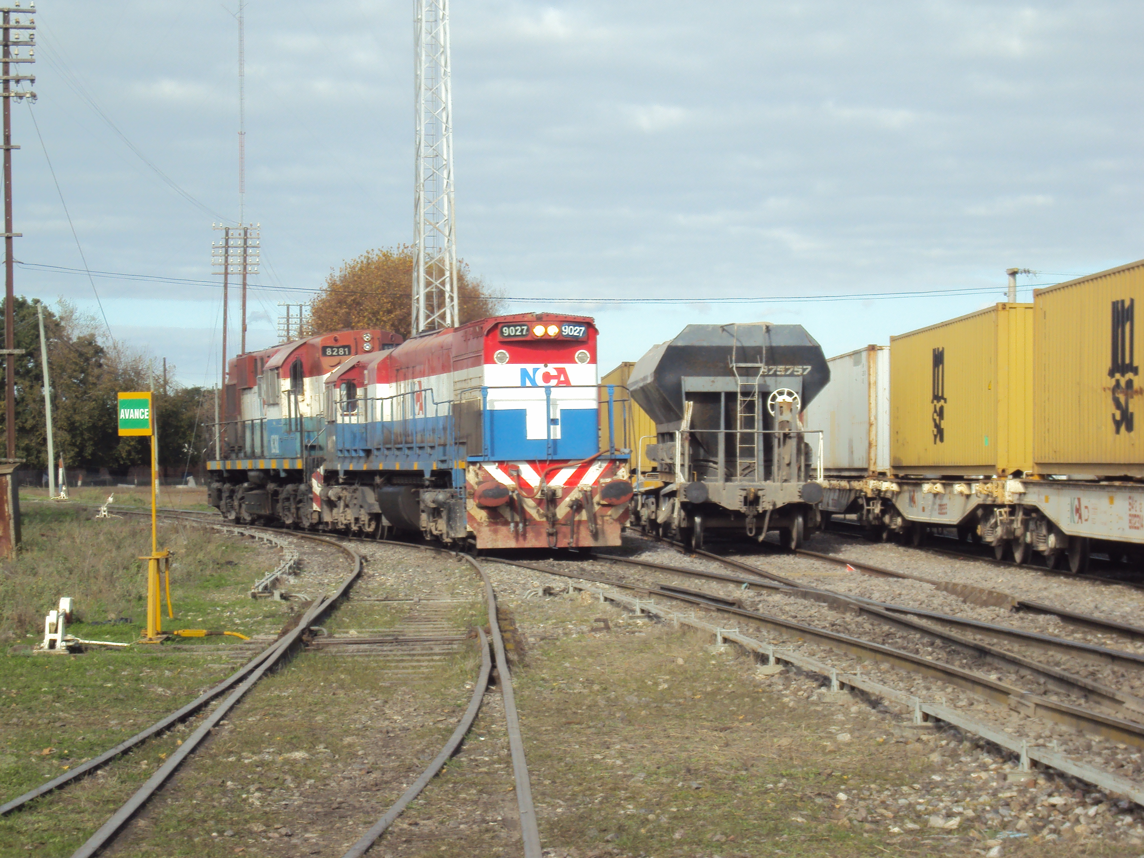 Tren de NCA maniobrando en patio EVC